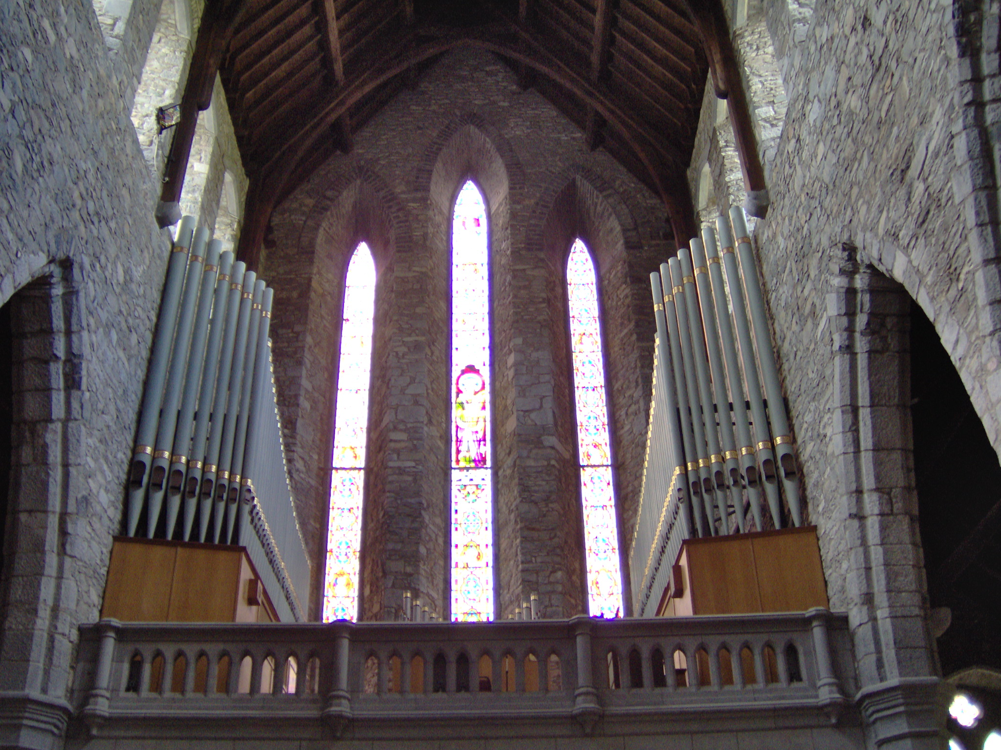 Killarney St Mary's Cathedral